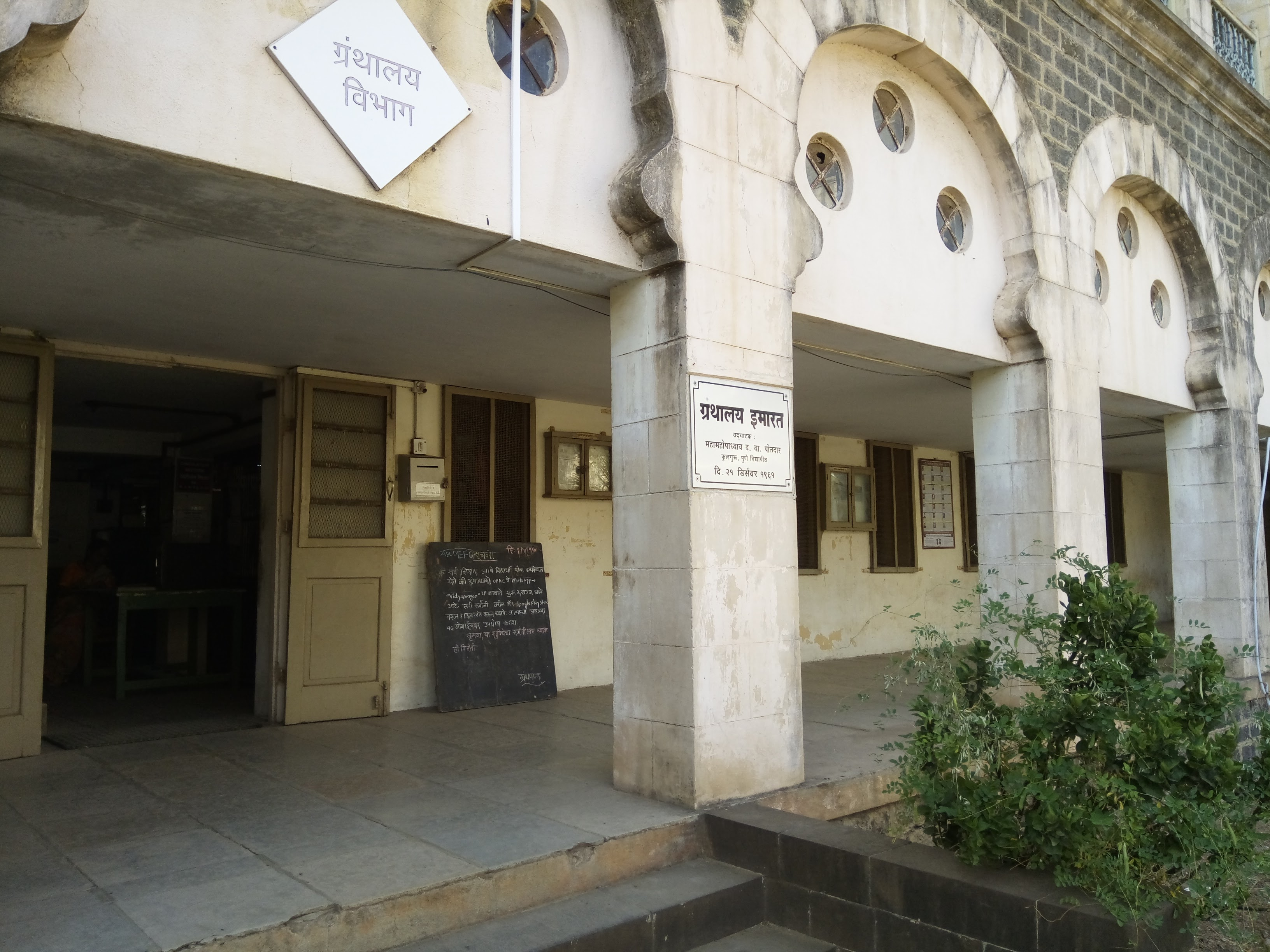 LIBRARY bUILDING